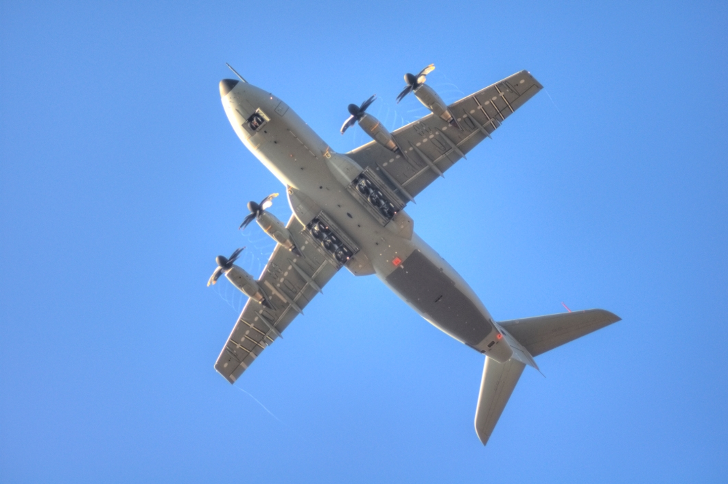 First Flight Airbus A400M